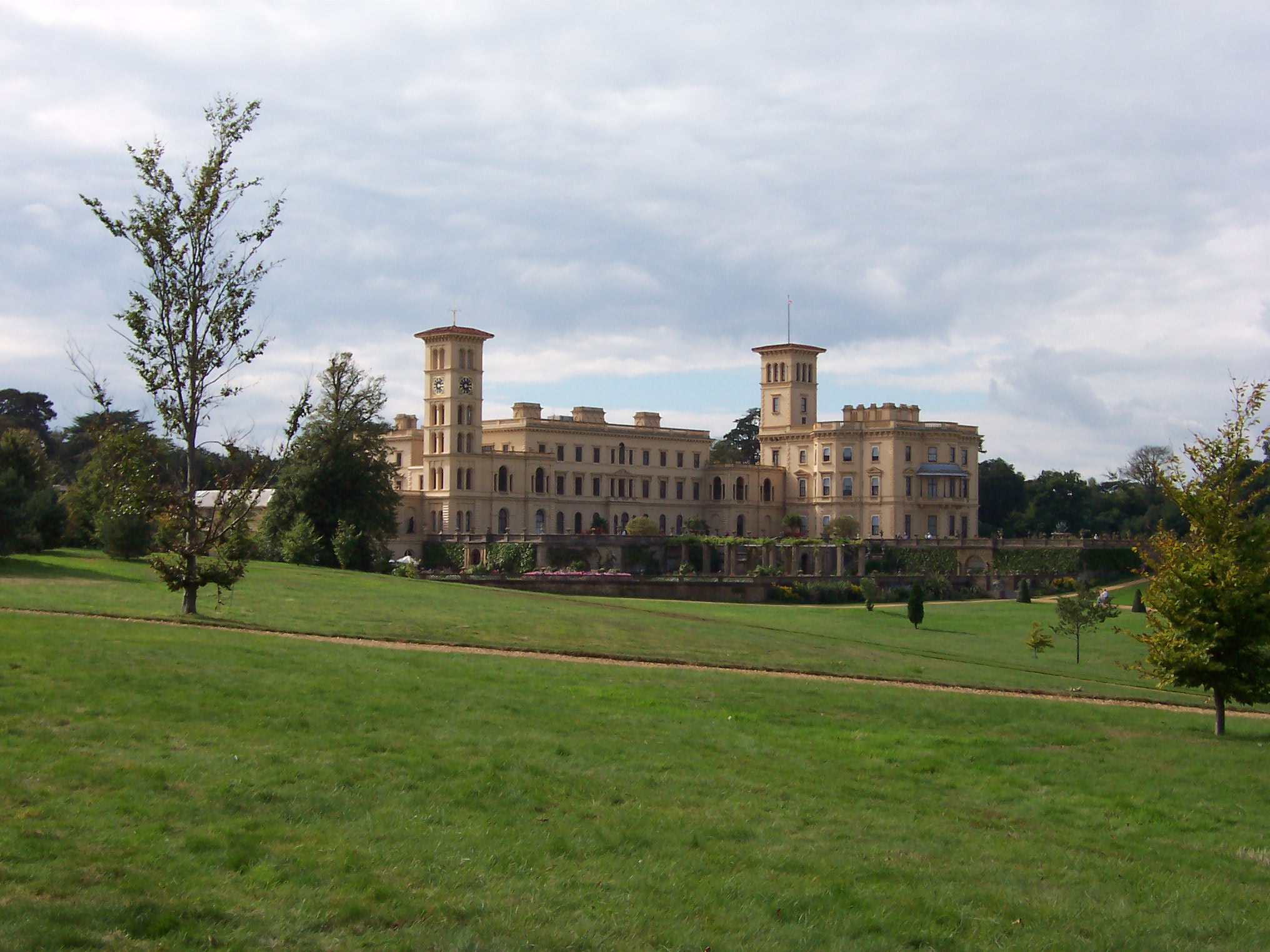 Osborne House